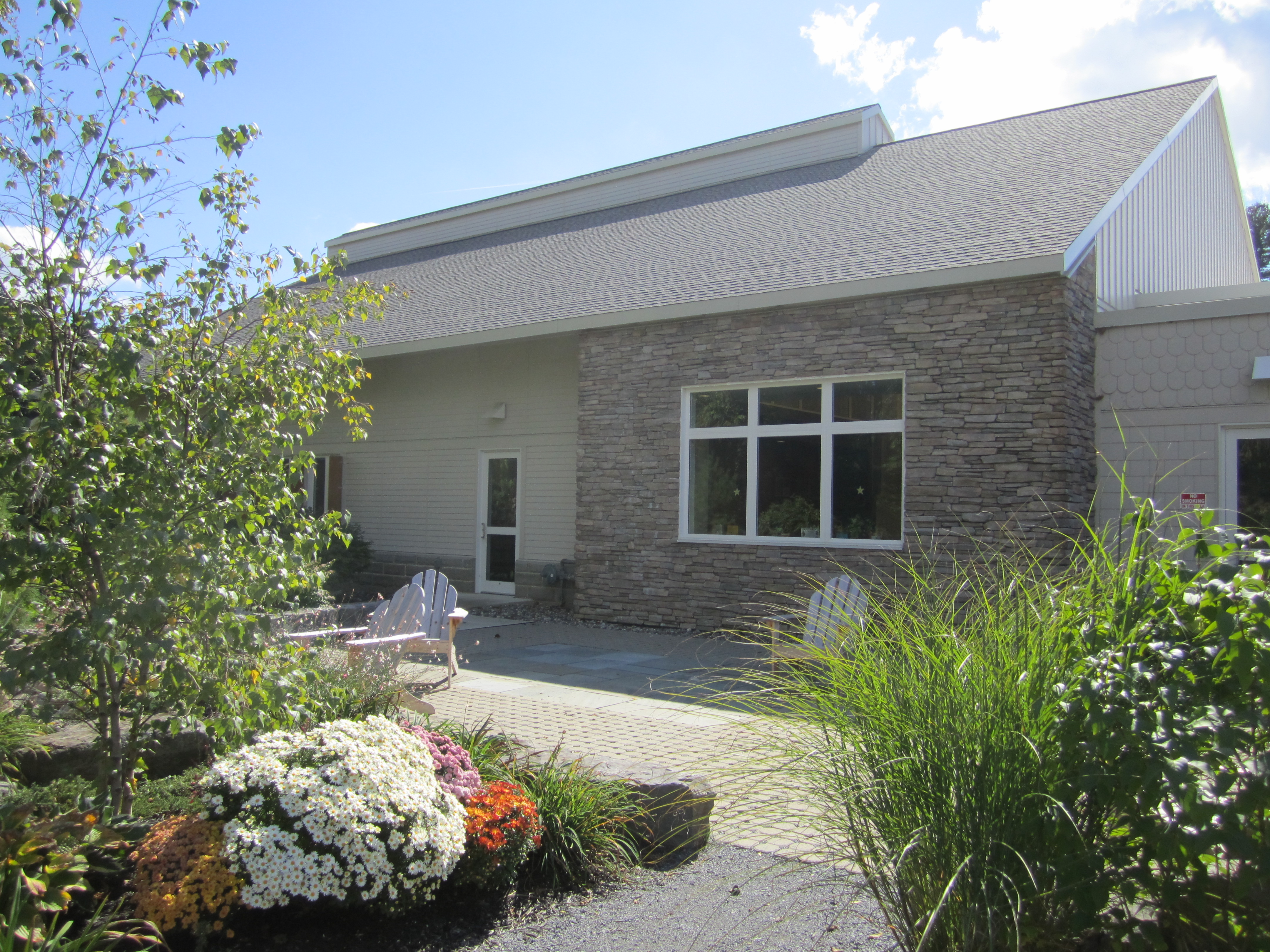 Round Lake Library, Malta (NY) branch. Rear view from the garden.